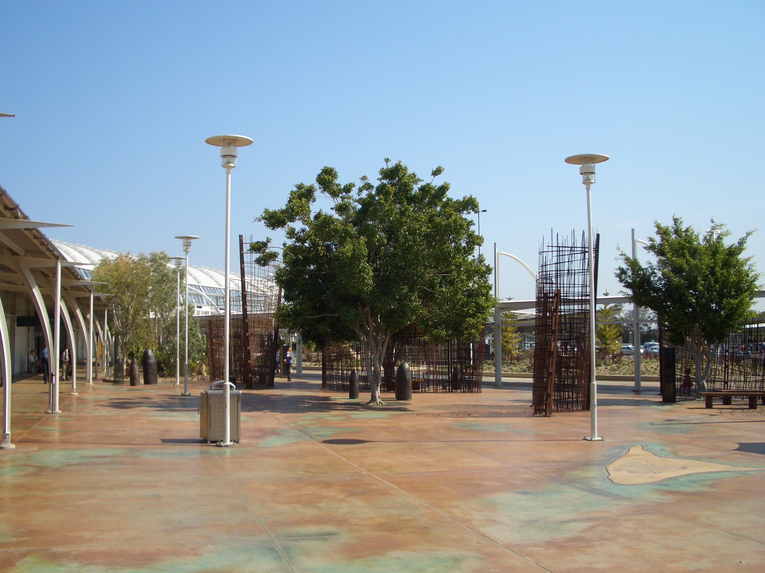 Sydney International Airport Terminal